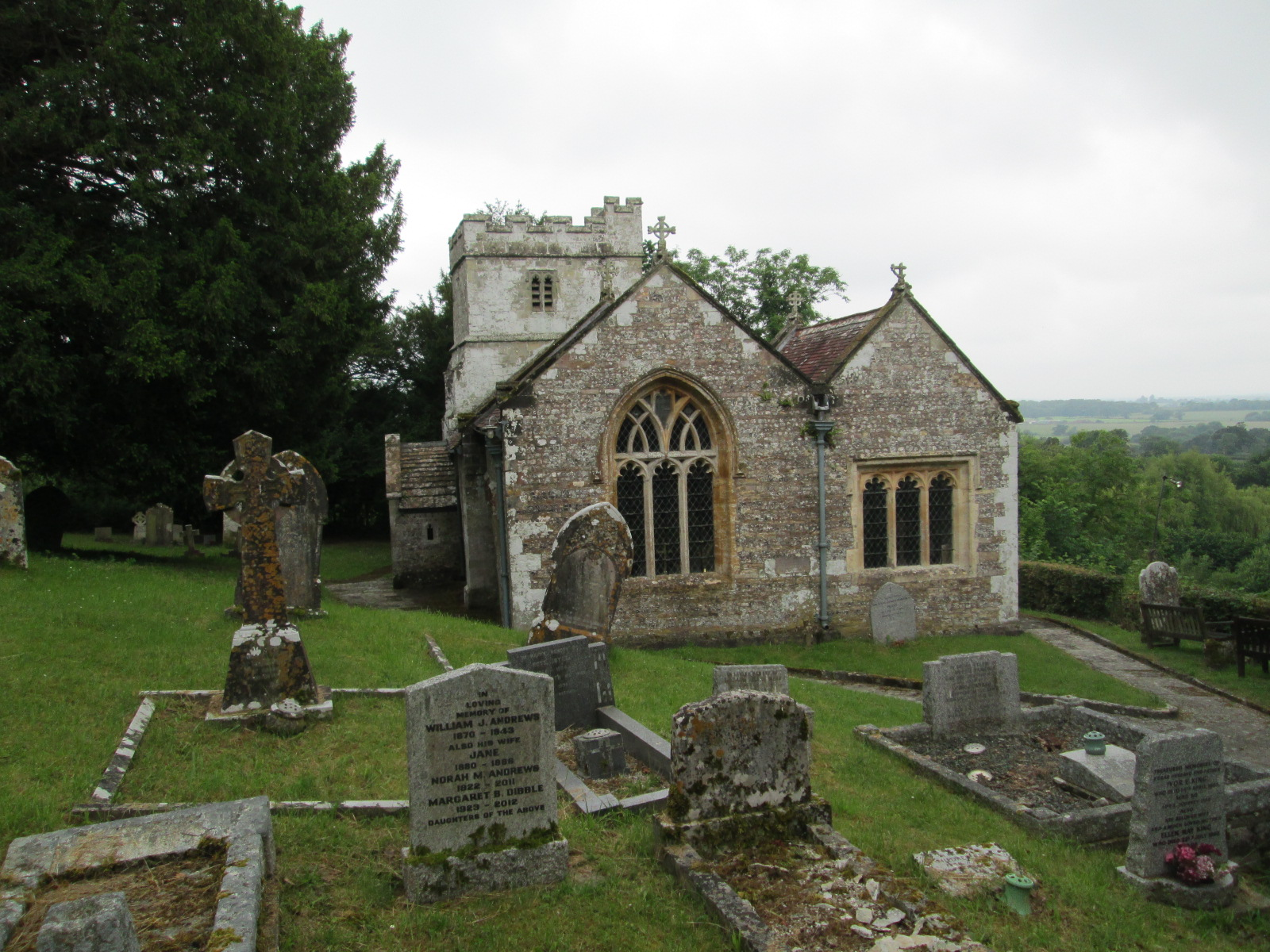 Church of St Eustace, in Ibberton, Dorset, viewed from the east.